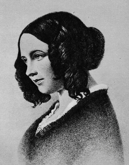 Catherine 'Kate' Thomson Dickens (née Hogarth) (19 May 1815 – 22 November 1879) [aged 64] was the wife of English novelist Charles Dickens, with whom he fathered 10 children. Stipple engraving by Edwin Roffe, after Daniel Maclise, and after John Jabez Edwin Mayall, published 1890